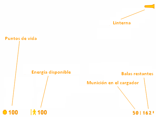 Translation from Image:Interface Half-Life.png